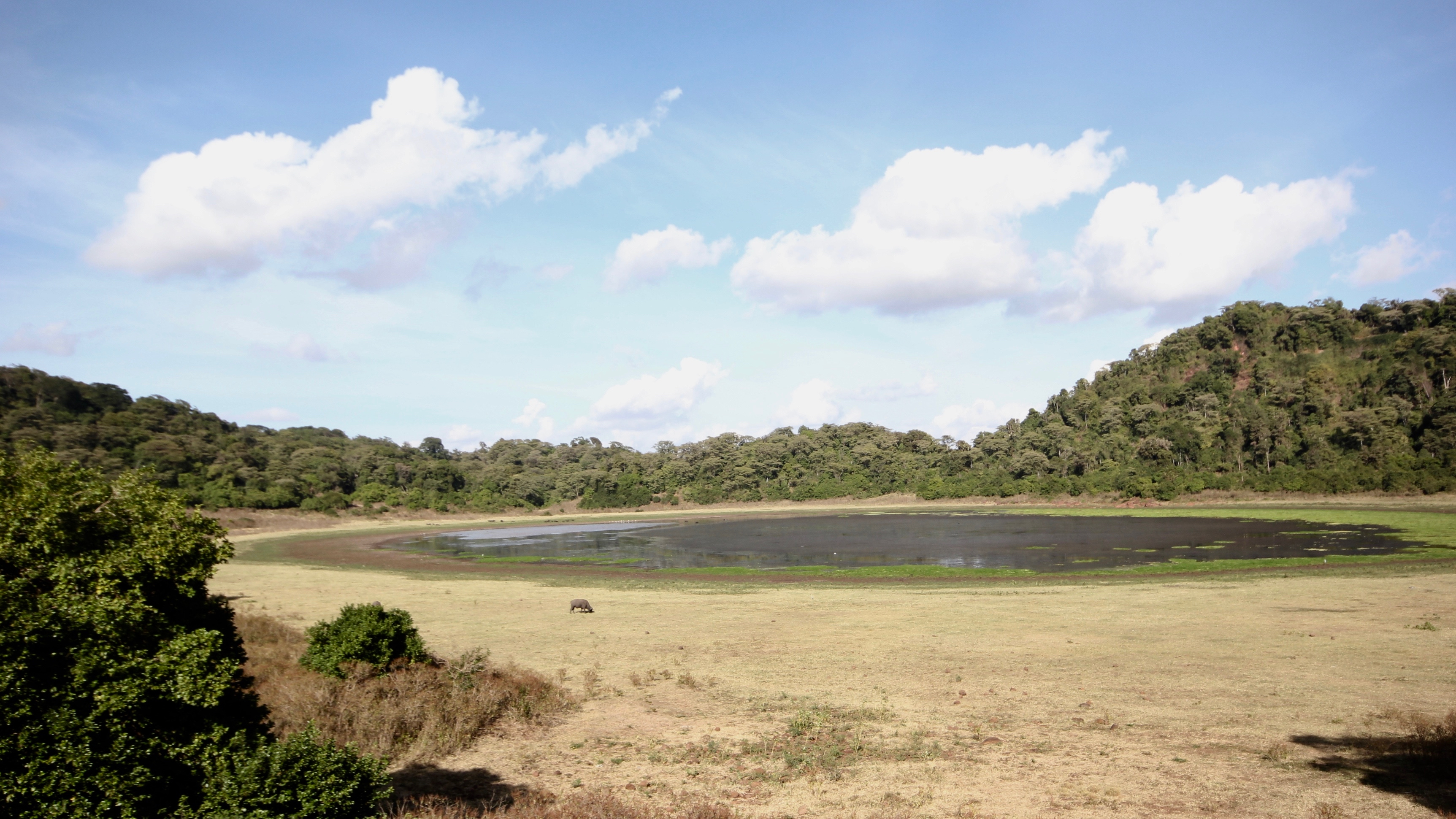 Marsabit National Park, Kenya. Feb 2018.